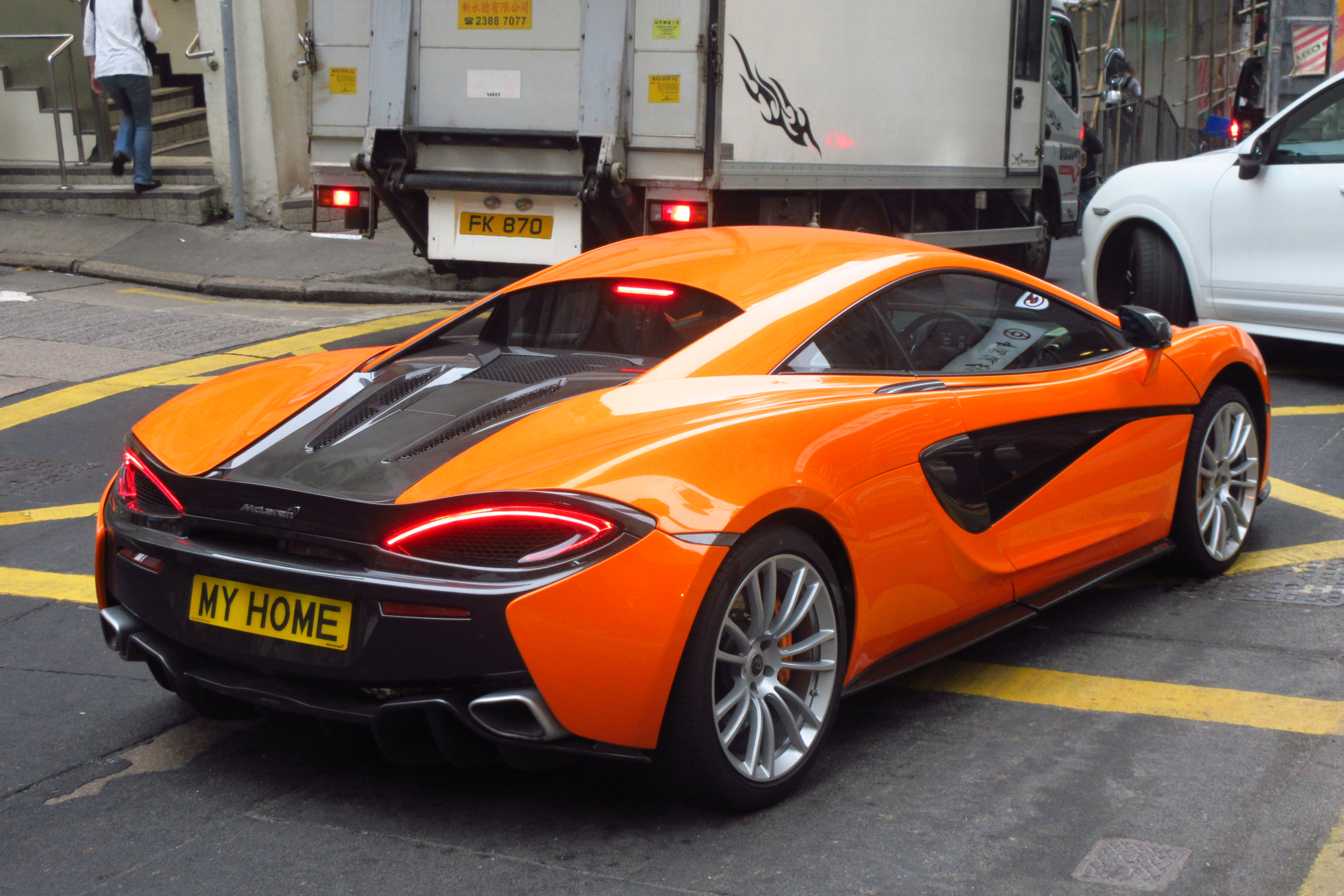 HK 香港 SYP 西環 Sai Ying Pun 正街 Centre Street car orange 麥拿侖 Mclaren automobile in April 2018